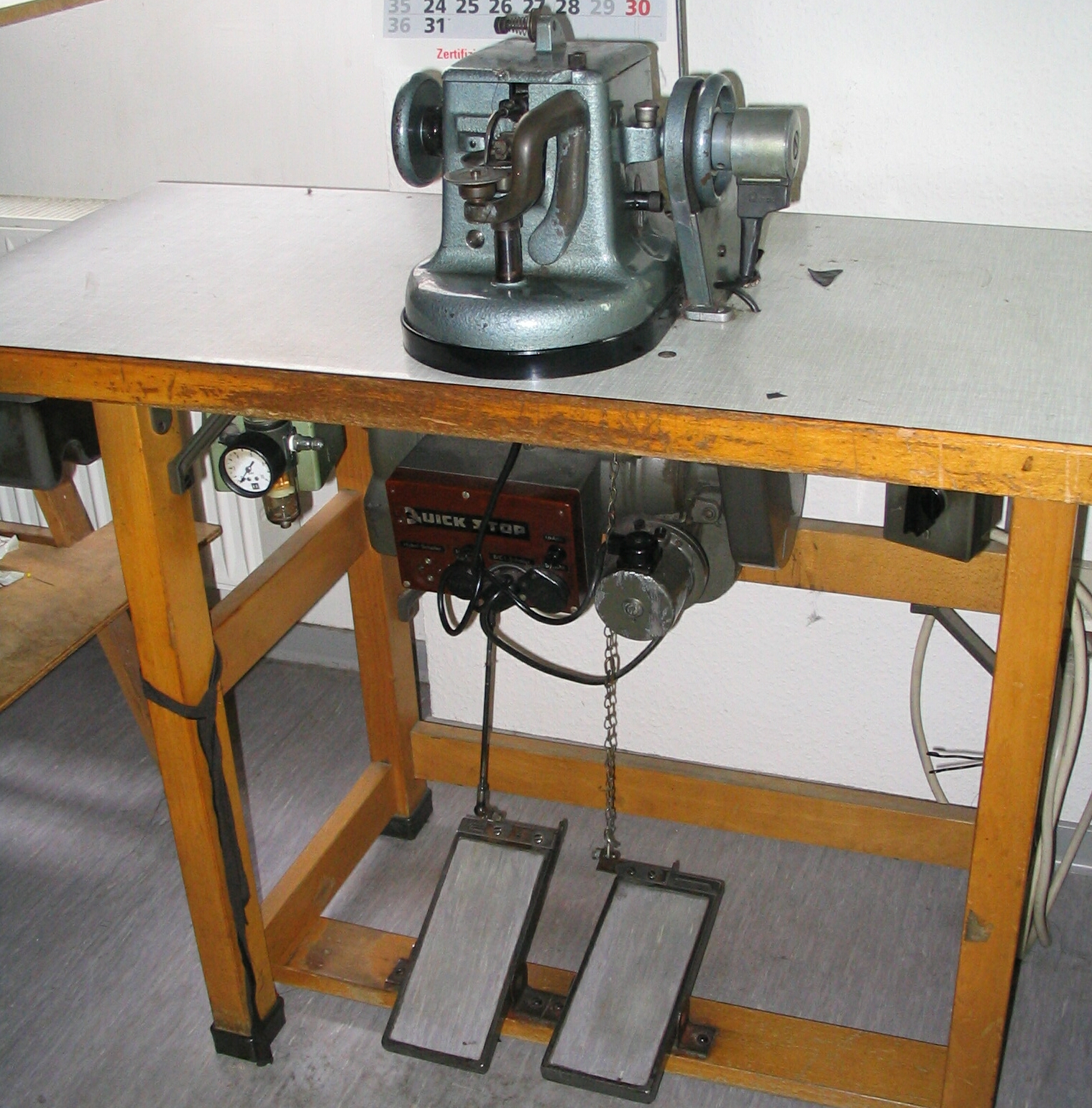 Furrier's tools: Fur sewing machine